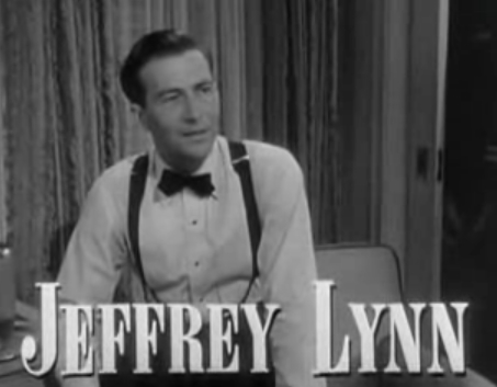 Cropped screenshot of Jeffrey Lynn from the trailer for the film A Letter to Three Wives